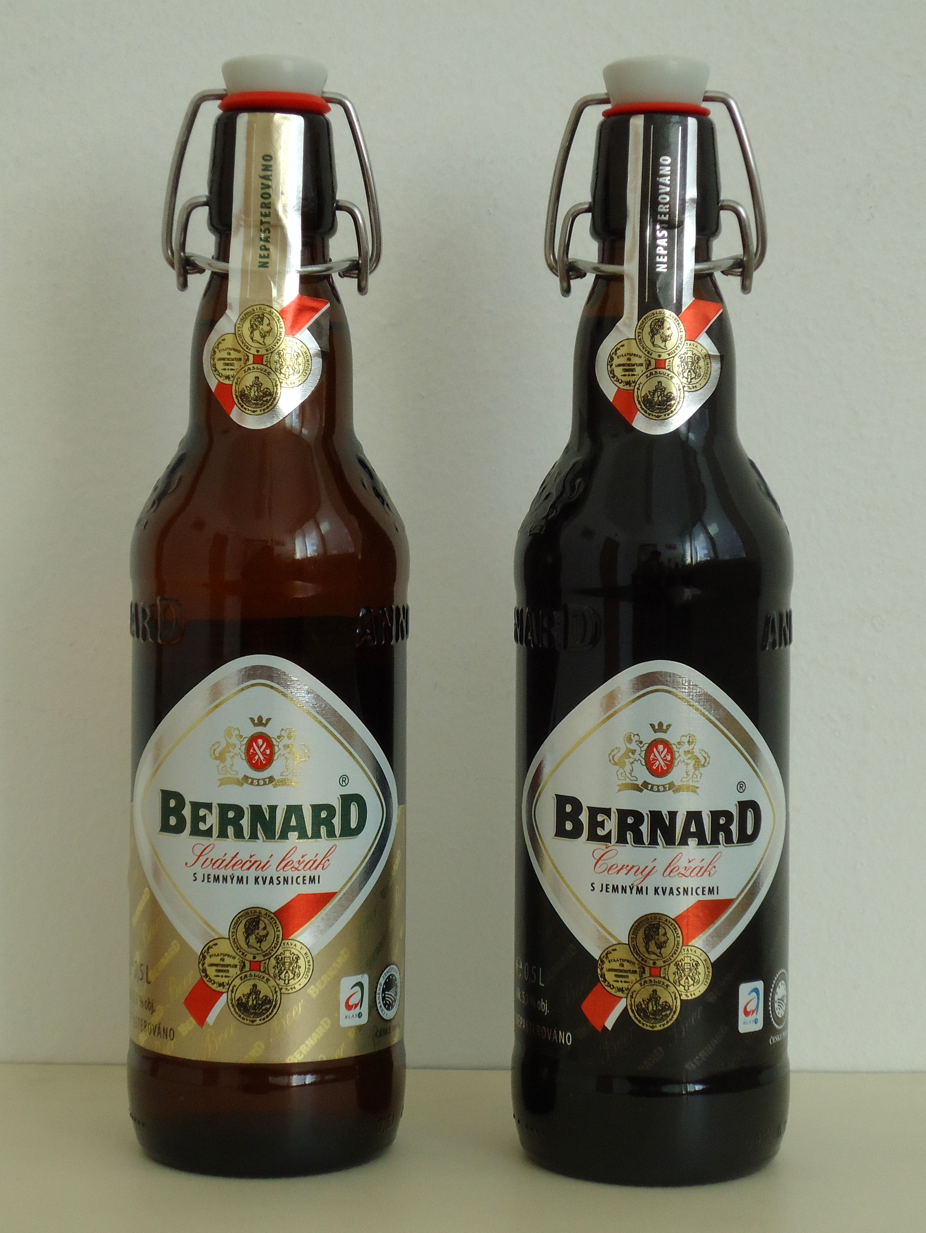 Bernard 2 beers